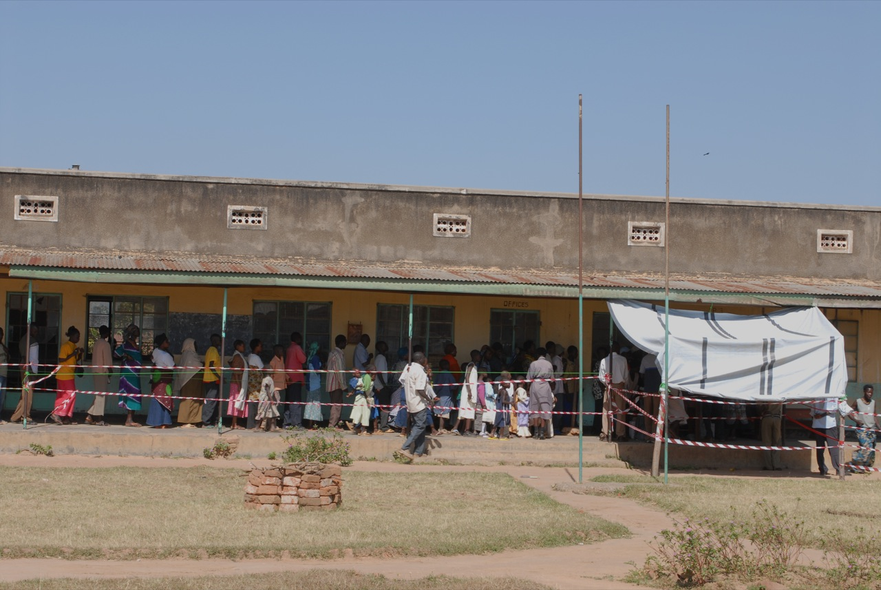 Line for meningitis vaccinations in Arua — in the Arua District, Northern Region of Uganda.